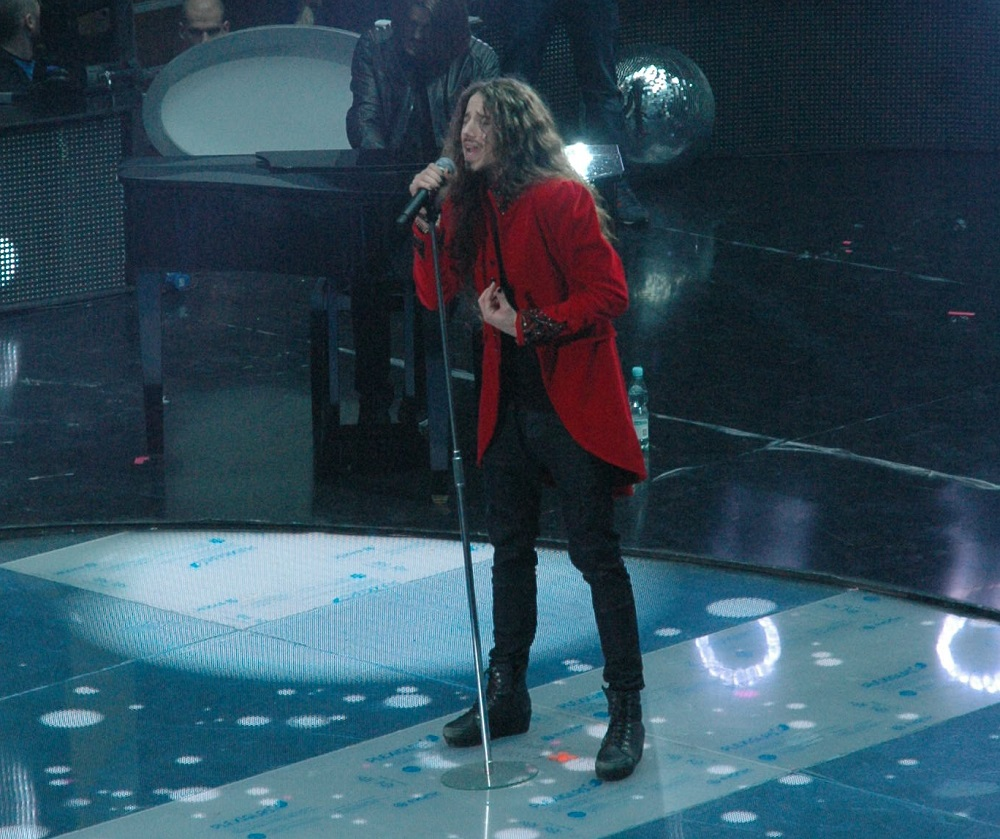 Polish singer Michał Szpak during rehearsals for performance in Polish National Final of ESC 2016